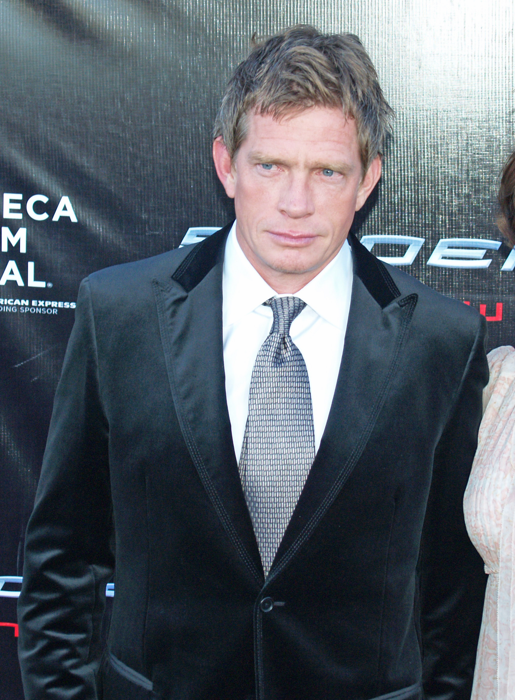 Thomas Haden Church